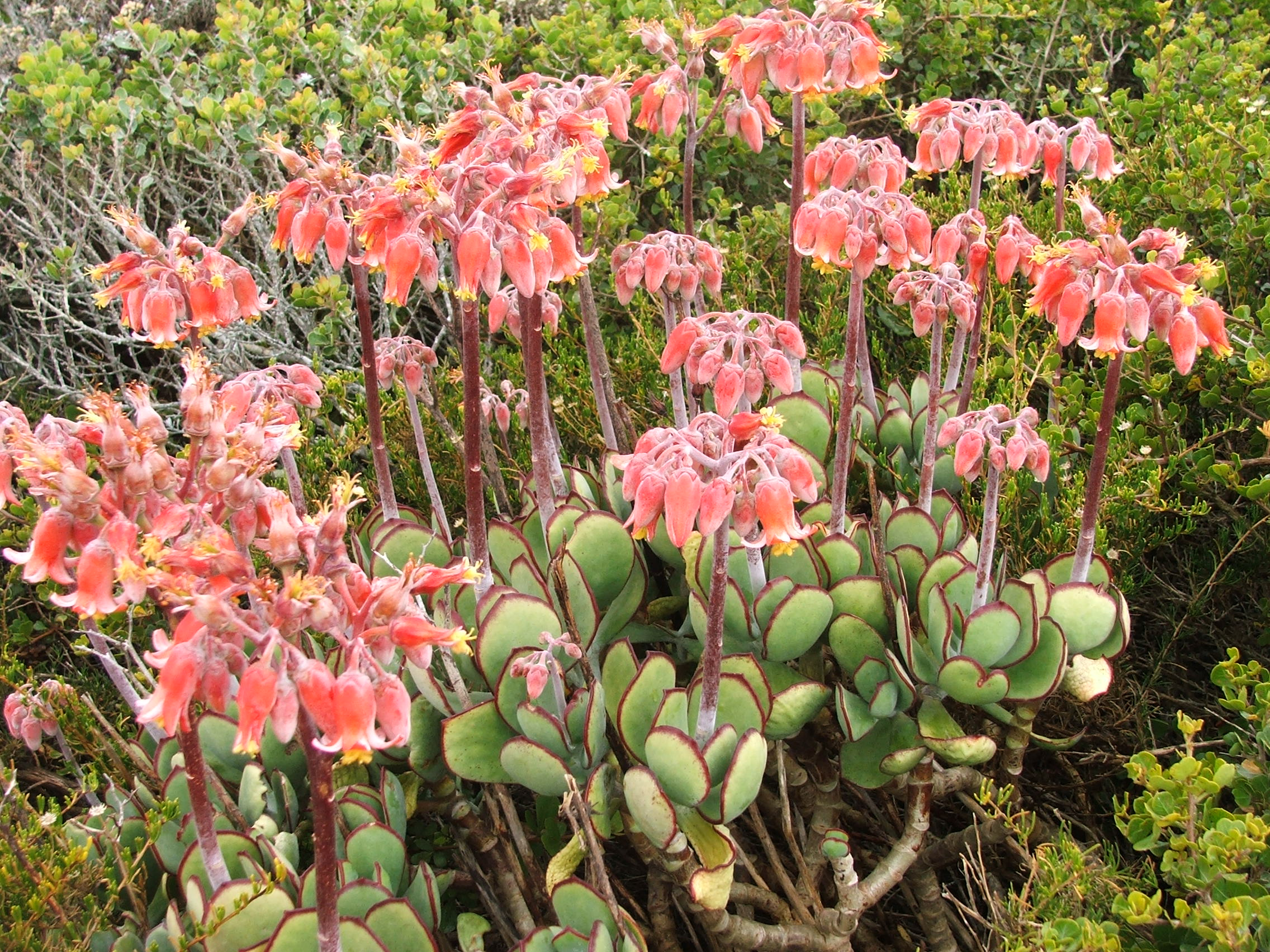 Cotyledon orbiculata. Photo taken at Cape Point, South Africa.